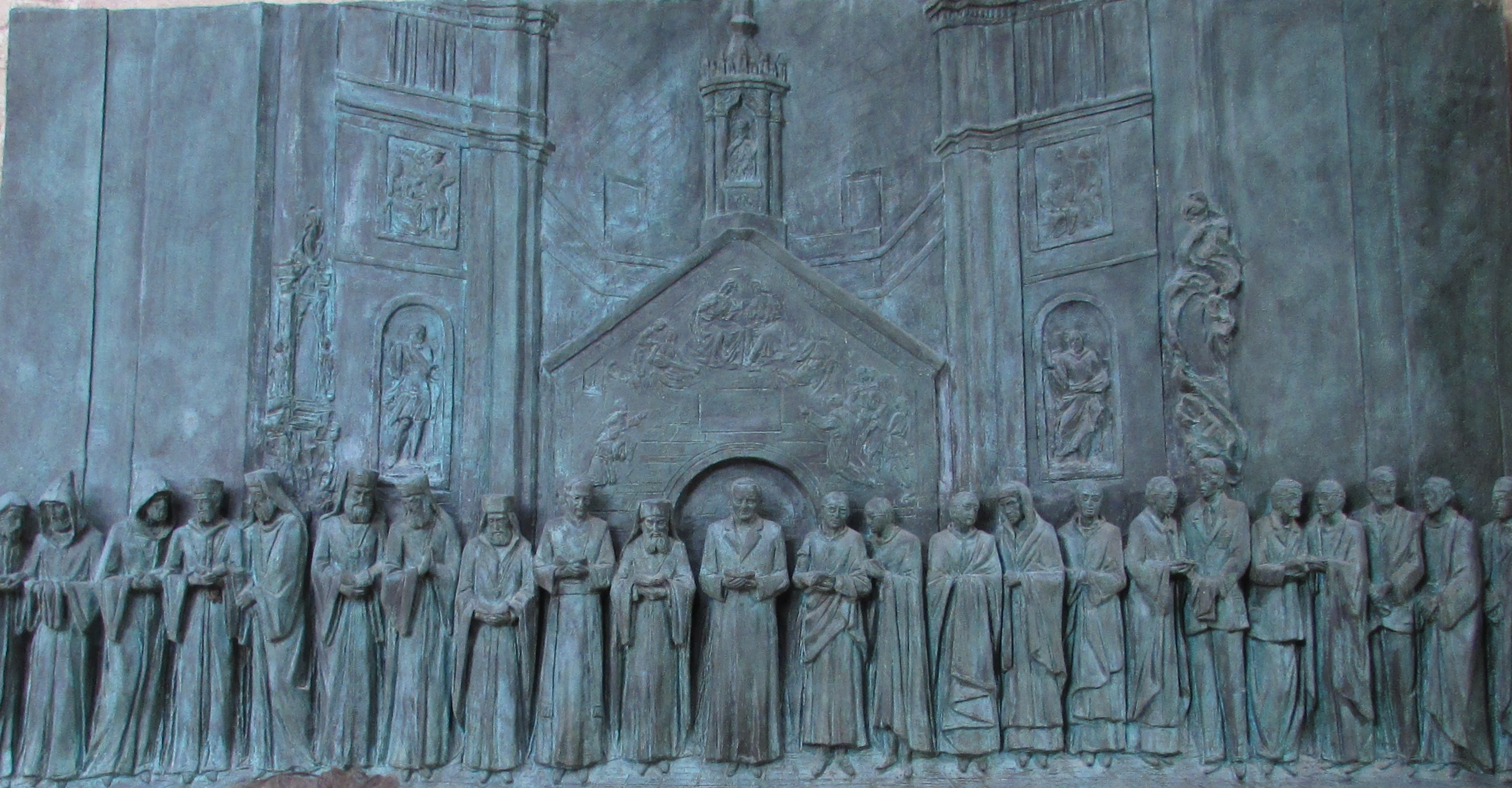 Memorial engraving of the first 'World Day of Prayer for Peace' in Assisi (1986), with Pope John Paul II hosting religious leaders from around the world.